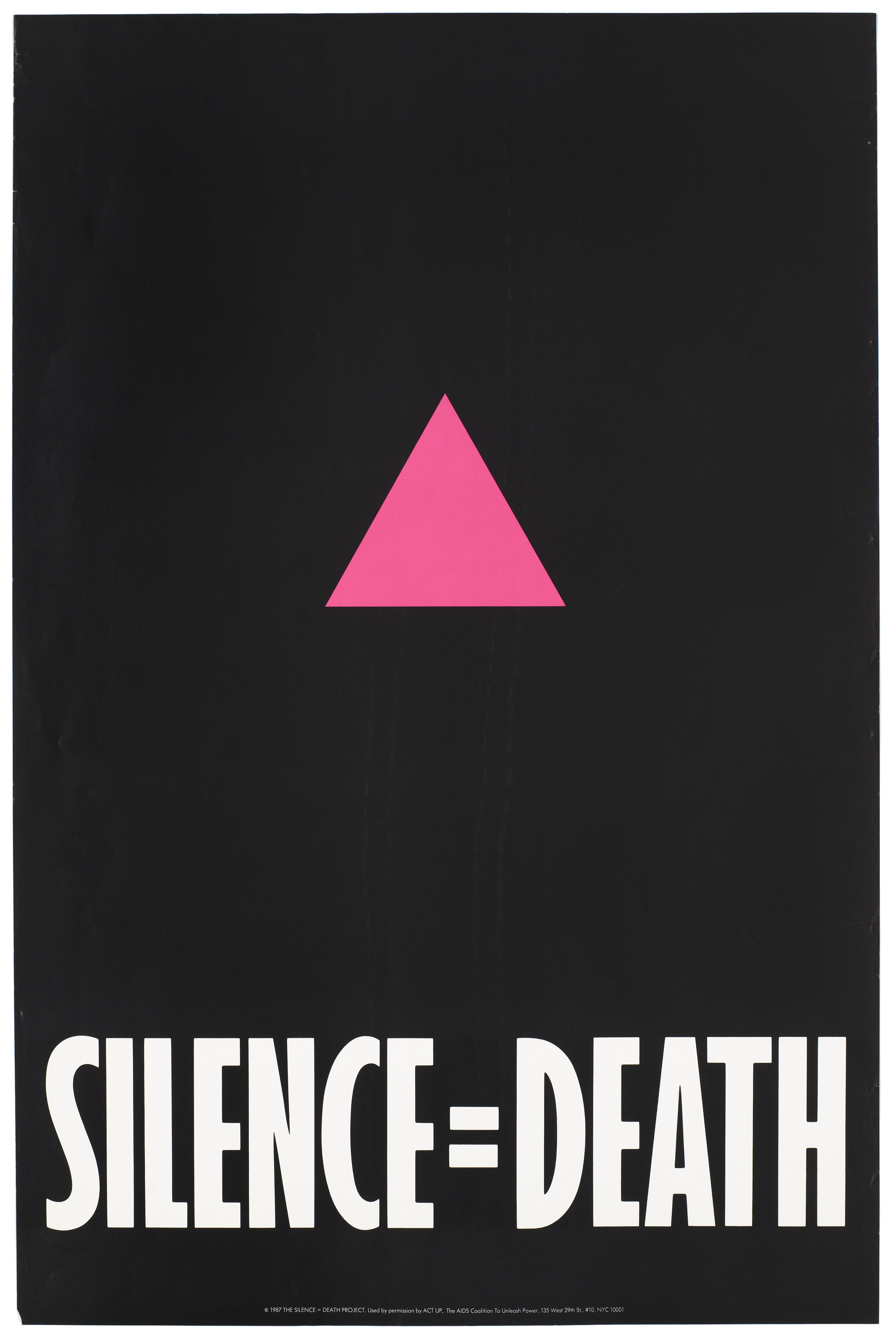 Topic-LCSH: AIDS (Disease) Genre/Technique: Lithographs. Posters.